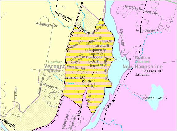 Map of Wilder, a census-designated place in Windsor County, Vermont, United States, with its boundaries at the time of the 2000 census.